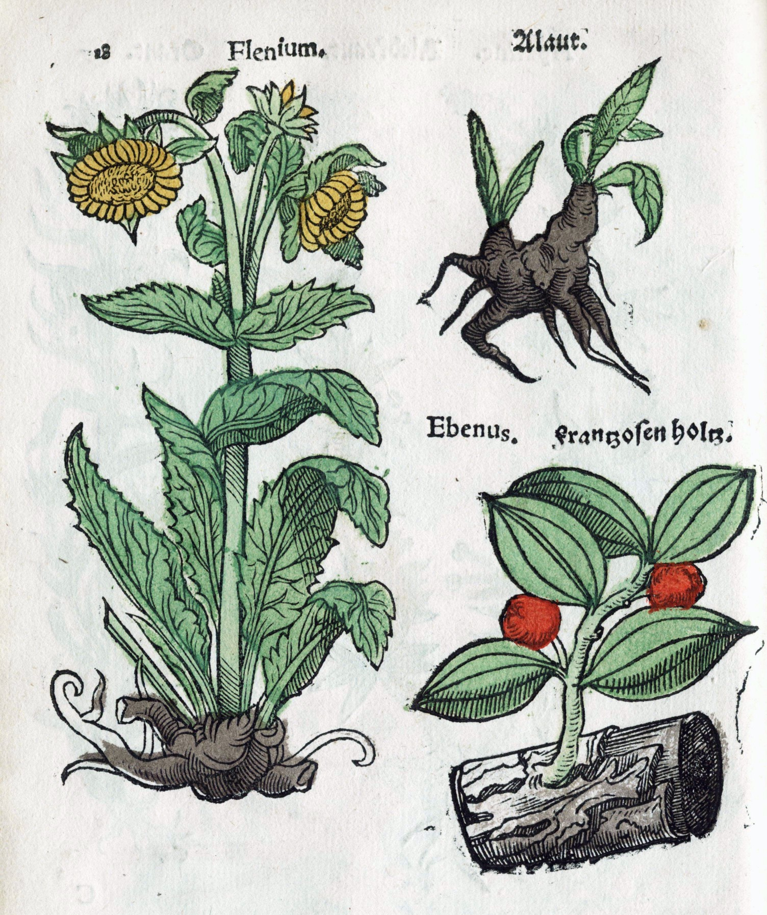 Plate from "Herbarum, arborum, fruticum, frumentorum ac leguminem" published by Christian Egenolff (1502-1555)